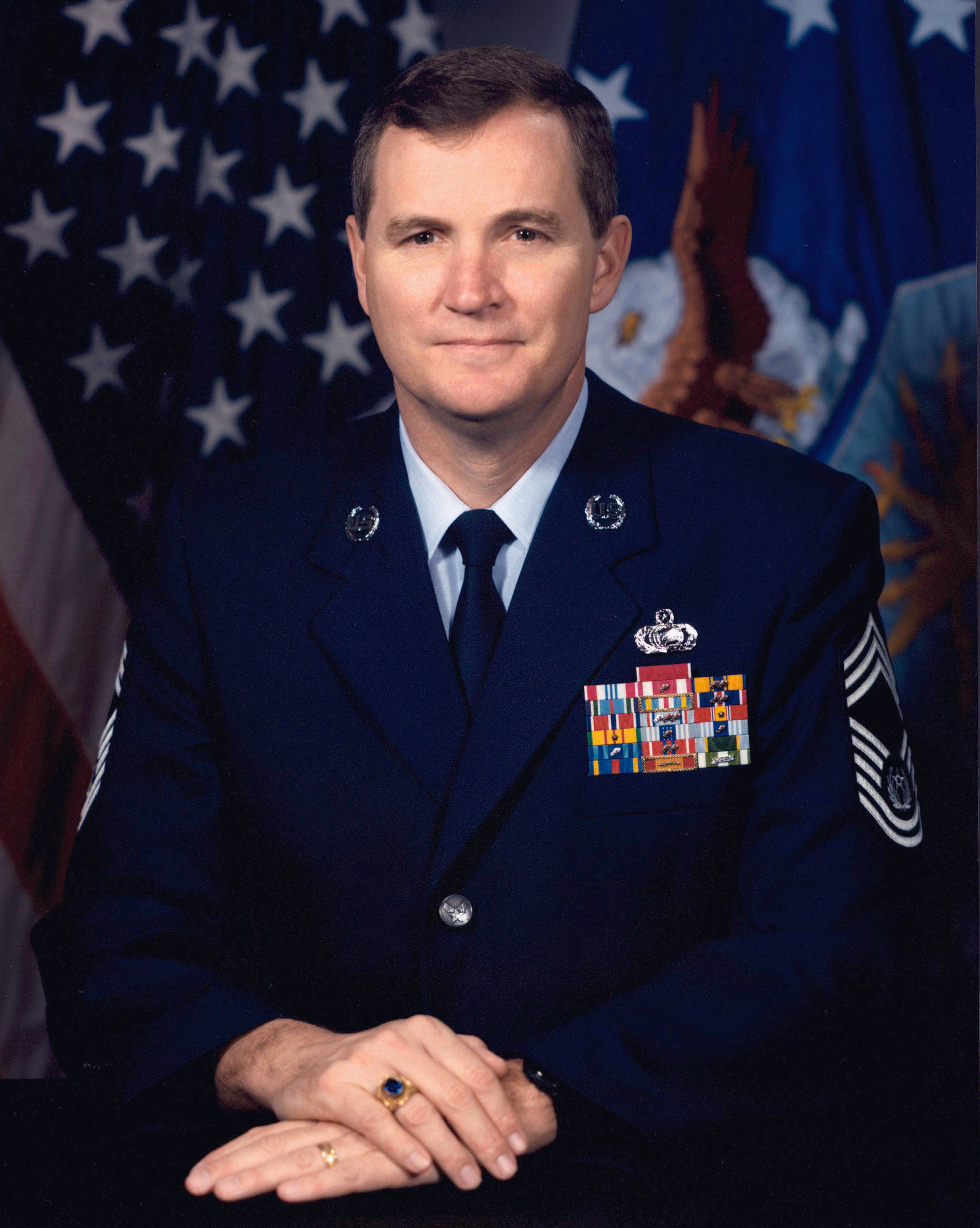 Chief Master Sergeant of the Air Force Eric W. Benken was the twelfth Chief Master Sergeant appointed to the highest noncommissioned officer (NCO) position in the United States Air Force.